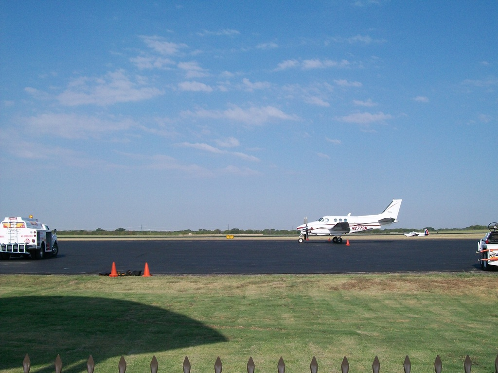 The landing of a plane at Denton Municipal; it is used for training purpose by the US Aviation Academy.